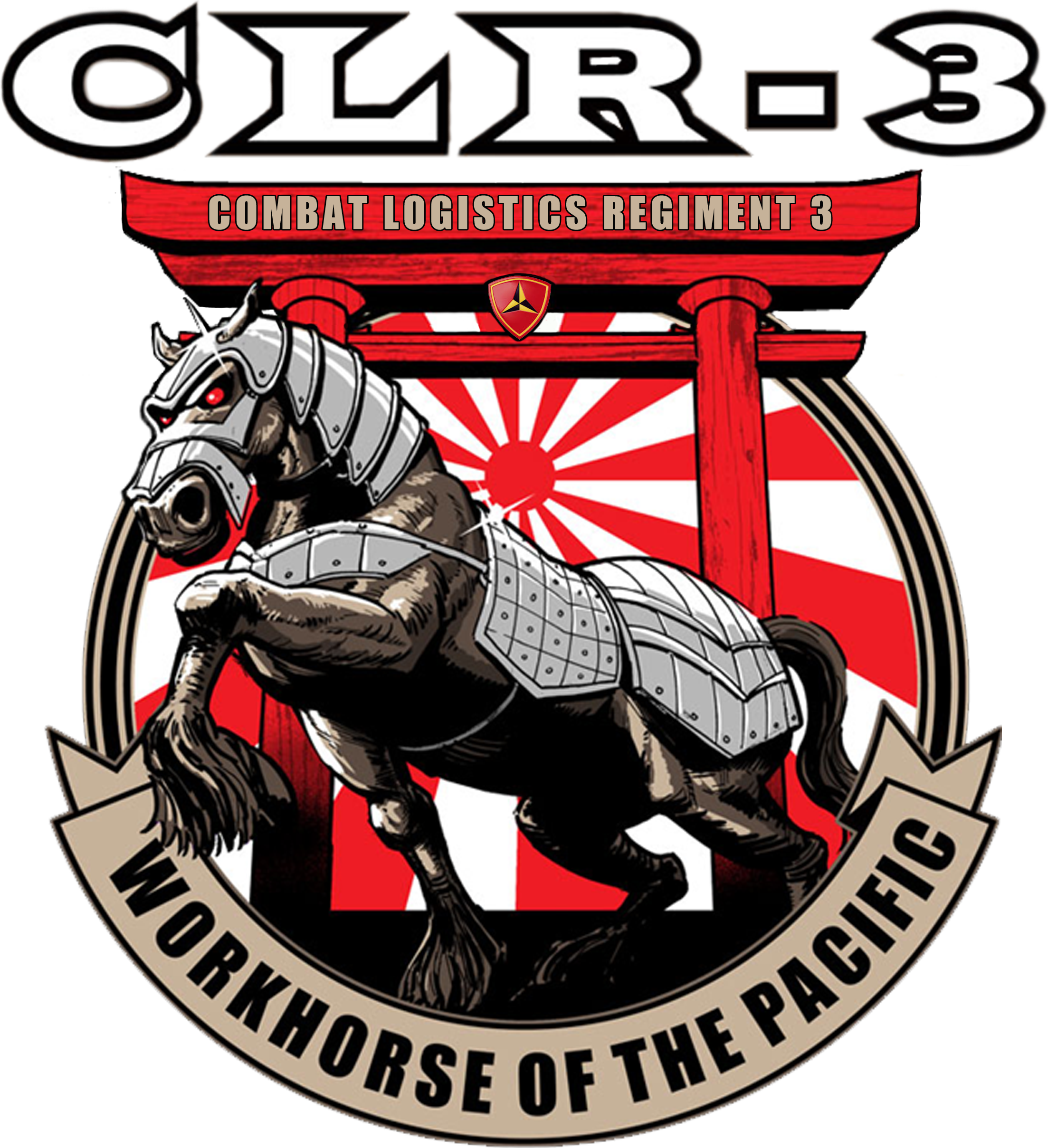 An armored horse standing before a red Tori gate, which bears the caltrop of 3d Marine Division.